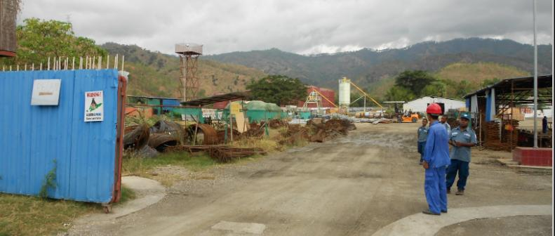 Hera power station, East Timor